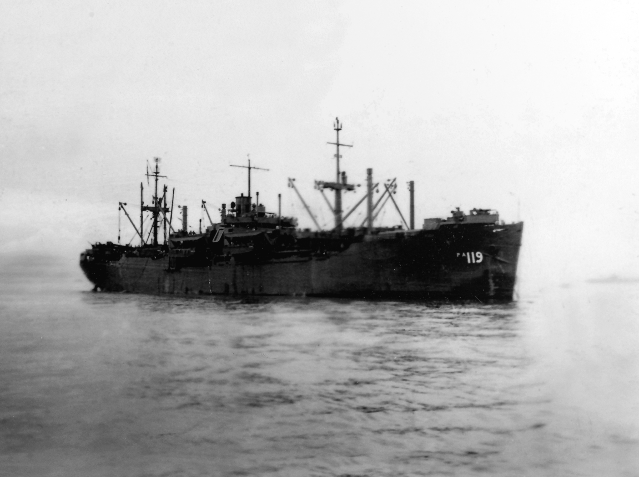 USS Highlands (APA-119) in the Pacific, circa 1945 or early 1946. US Navy photo # NH 98837 donated to the US Naval Historical Center by William Harold Milligan, 2003, in memory of his father, Harold Rutial Milligan, who served in USS Highlands during World War II. Official US Navy photo taken from